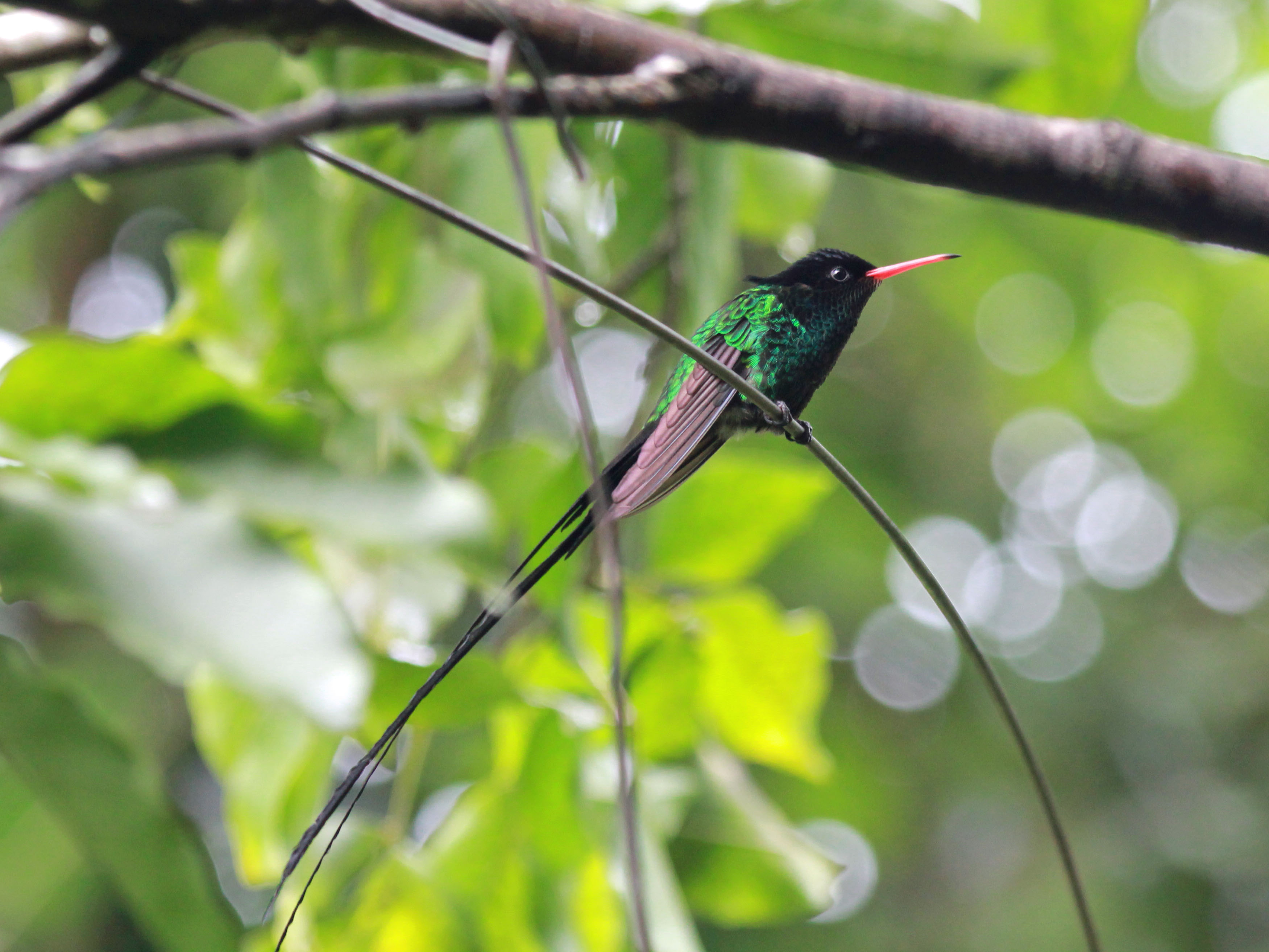 Male Red-billed Streamertail (Trochilus polytmus) - Rockland Feeding Station, Jamaica.